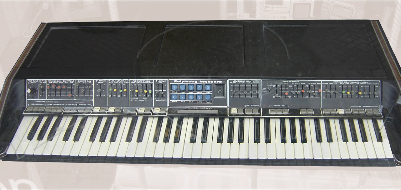 Moog Polymoog synthesizer (1975-1980) This store was very cool. Check the vintage moogs and tubes in there. The owner saw me looking in the window and called me into the store. Not sure what this one is but it has some nasty knobs up there. The on board knob controled sequencer.